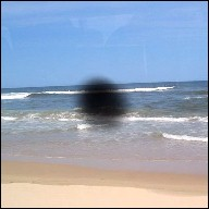 Example image showing small, deep central scotoma, as may be caused by age-related maculopathy.